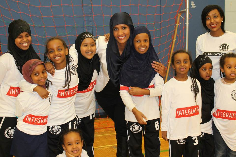 Nalayeh poses for a picture with Toronto Girls Soccer Association (TGSA) founder and coach Hanan Warsame and some of the girls who make up the soccer team.